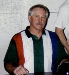 Cropped photograph of Catfish Hunter